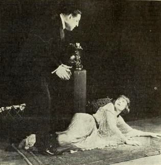 Still from the American film I Am Guilty (1921) with Louise Glaum and Joseph Kilgour, on page 1 of the March 23, 1921 Film Daily.